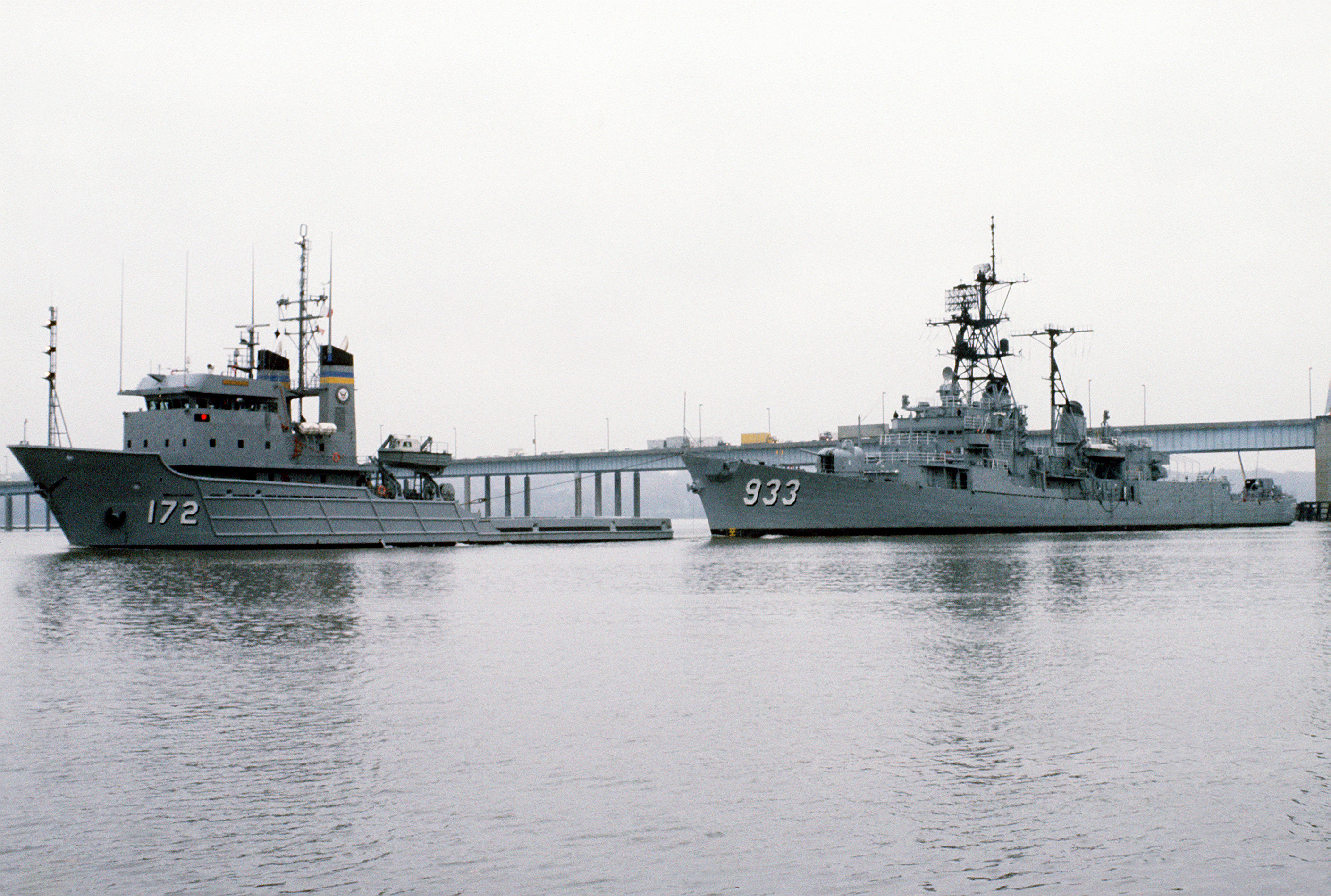 The decommissioned U.S. Navy destroyer USS Barry (DD-933) is towed to the Washington Navy Yard, Washington D.C. (USA), by the fleet tug USNS Apache (T-AF-172) on 15 November 1983. The Barry was docked at Pier 2 and was opened to the public as a museum. She was sold in 2016 to be scrapped as it became too expensive to maintain her.